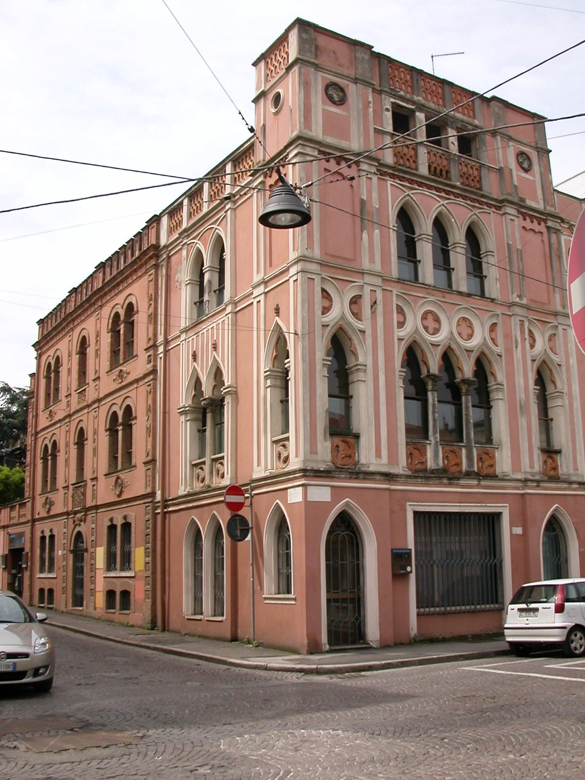 Minelli palace in Rovigo